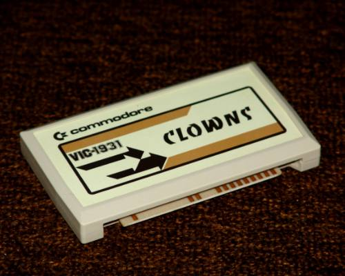 Commodore VIC-20 cartridge: Clowns (VIC-1931)